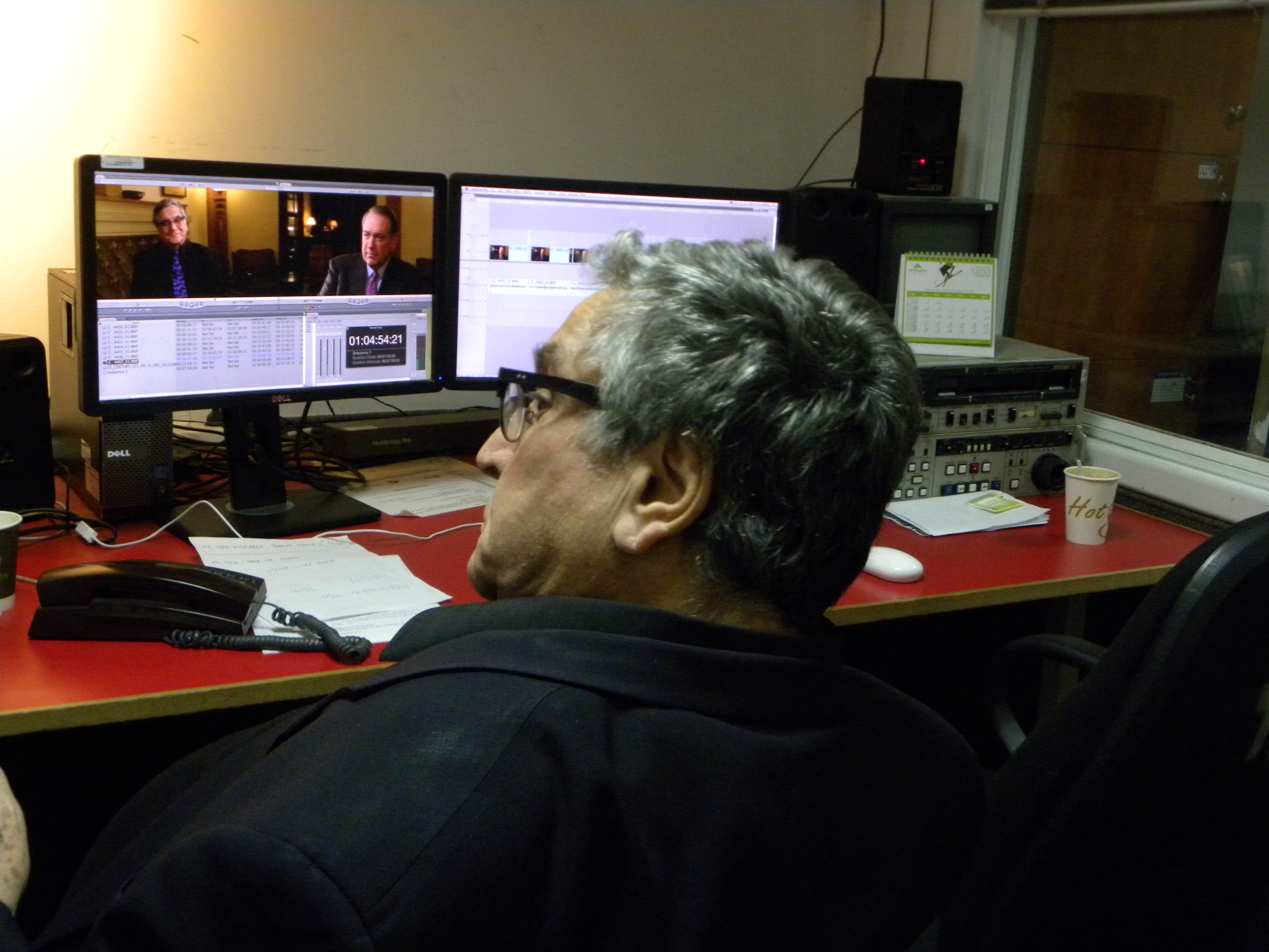 Israel Broadcating Authority Channel 1, in Romena, Jerusalem